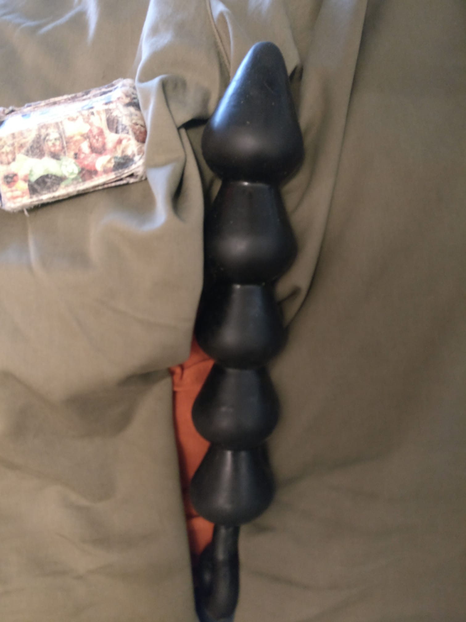 A large, flanged butt plug resting on a pair of trousers; Dinomighty Tyvek wallet for scale. This is a found object.